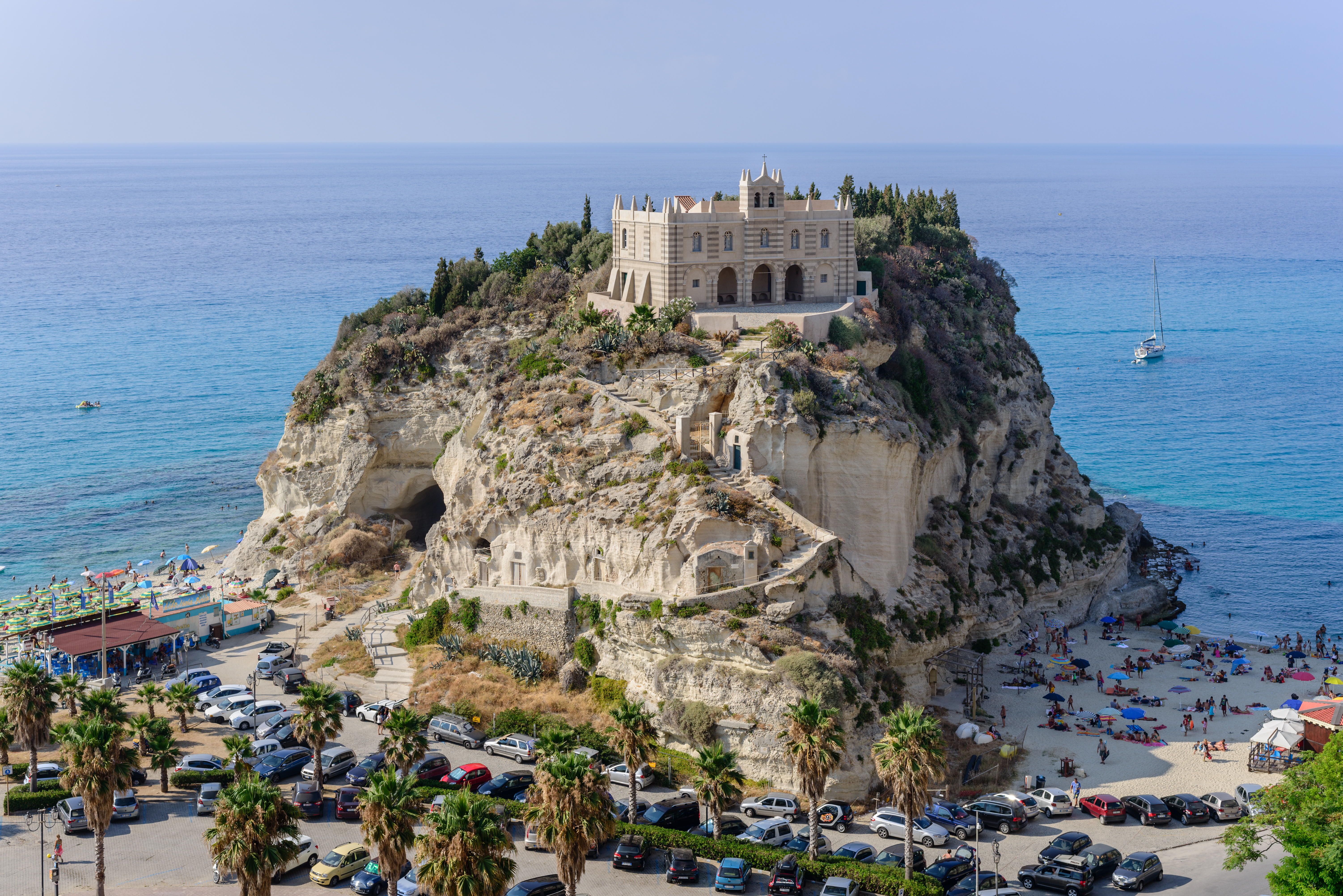 Santa Maria dell'Isola, Tropea, Calabria, Italy.